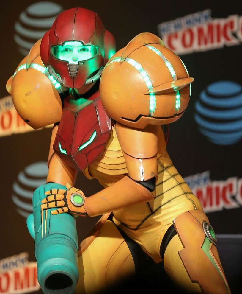 Victoria Miller cosplaying as Samus Aran (from Metroid) in the Eastern Championships of Cosplay contest at the 2016 New York Comic Con.